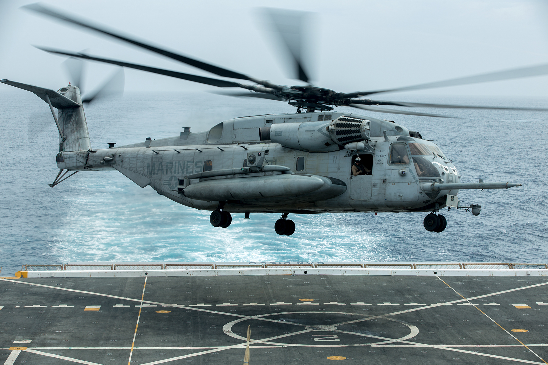 A CH-53E Super Stallion with Marine Medium Tiltrotor Squadron 163 (Reinforced), 11th Marine Expeditionary Unit, departs from the flight deck of the USS San Diego during flight operations, off the coast of Southern California, July 25, 2014. The 11th MEU and Makin Island Amphibious Ready Group are a sea-based, expeditionary crisis response force capable of conducting amphibious missions across the full range of military operations. (U.S. Marine Corps photo by Gunnery Sgt. Rome M. Lazarus/Released)